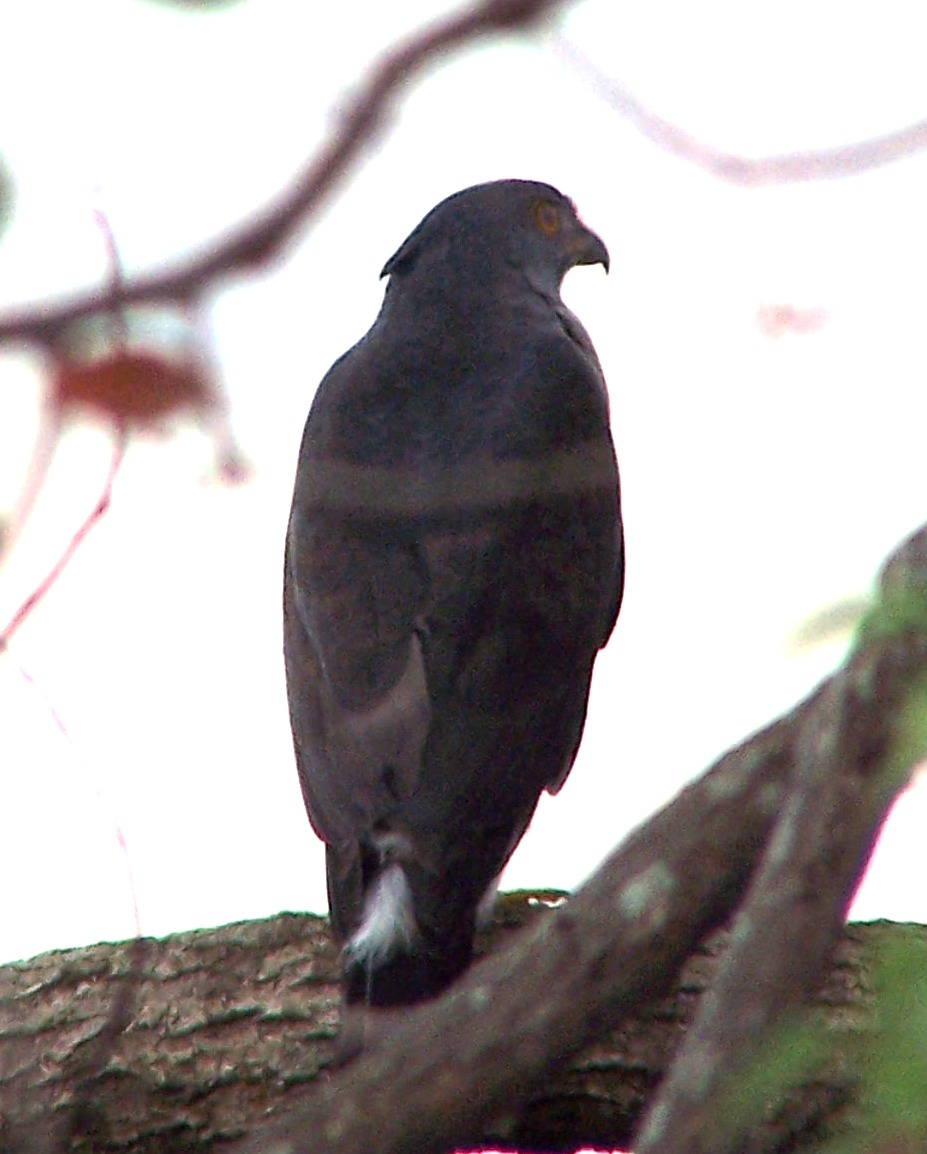 Crested Goshawk (Accipiter trivirgatus) in Hong Kong Original description: Often seeing them in the sky, It is my first time to see it standing still, but the light is not good.... Saw it at the hillside